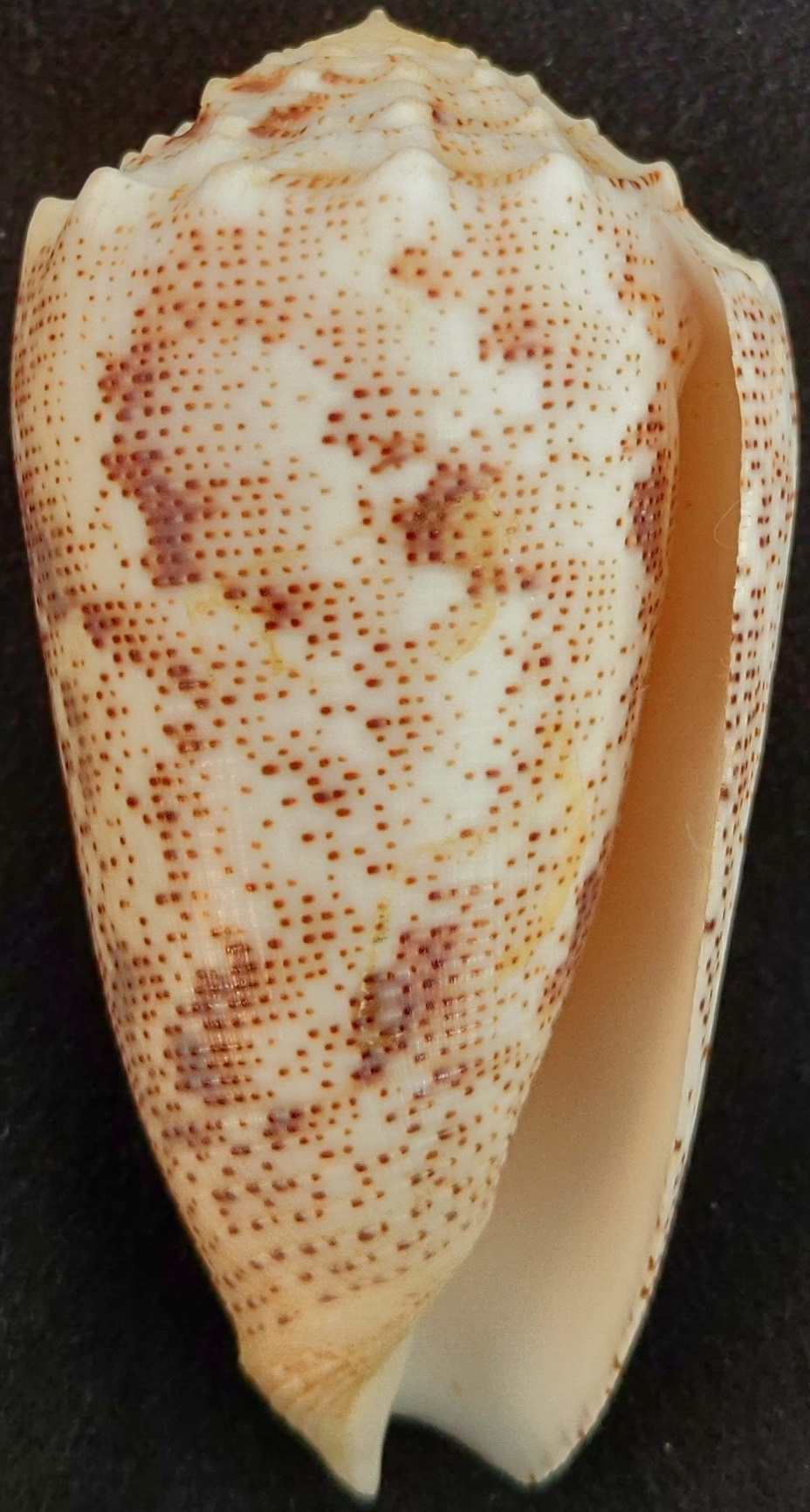 Conus Arenatus Front